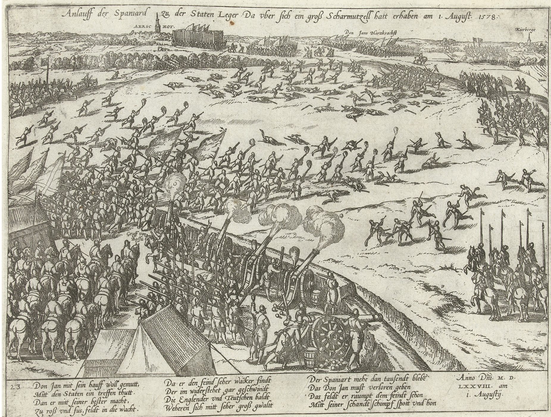 Spanish attack on the Staten army, 1 aug 1578